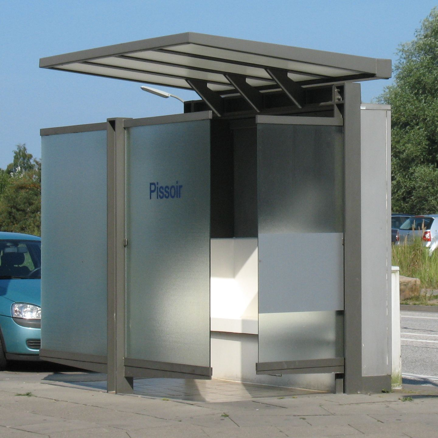 Pissoir in Hamburg-Allermöhe, Germany